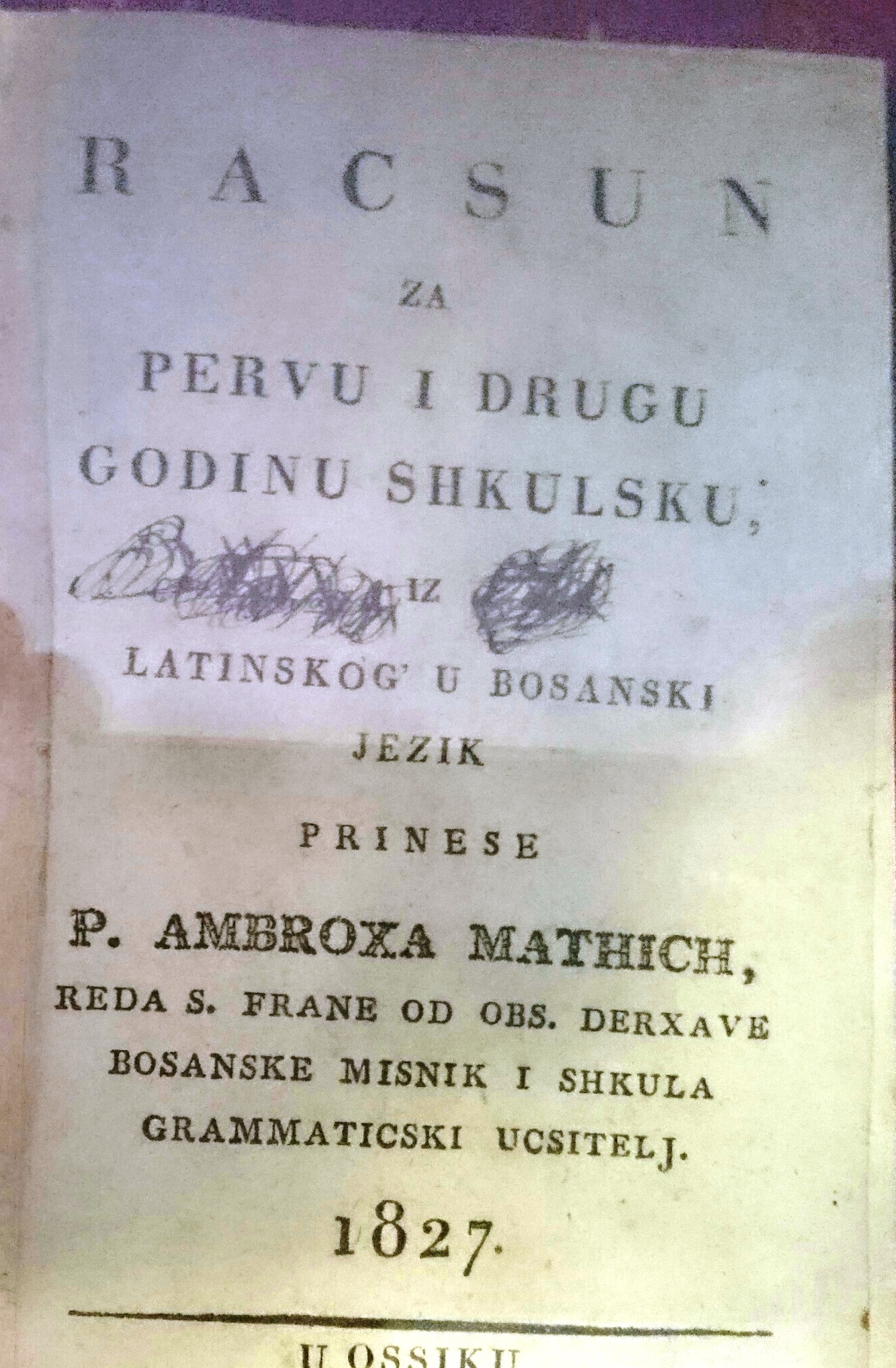 Schoolbook of Latin and Bosnian language, 1827. Hold at the Musem of the Franciscan Monastery of the Holy Spirit in Fojnica, Bosnia and Herzegovina